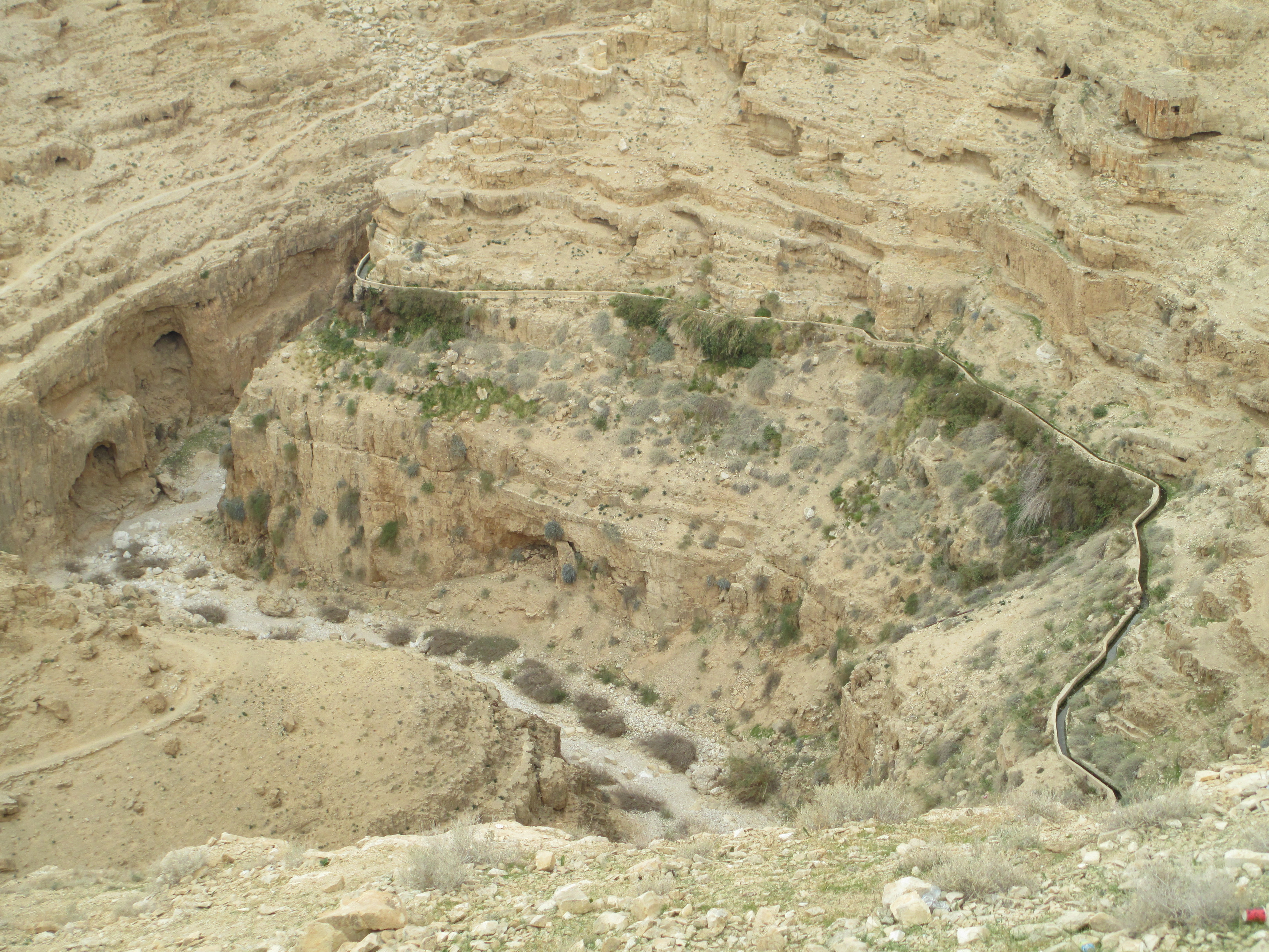 Wadi Qelt